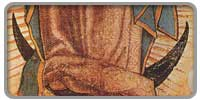 Mėnulis po Marijos kojomis